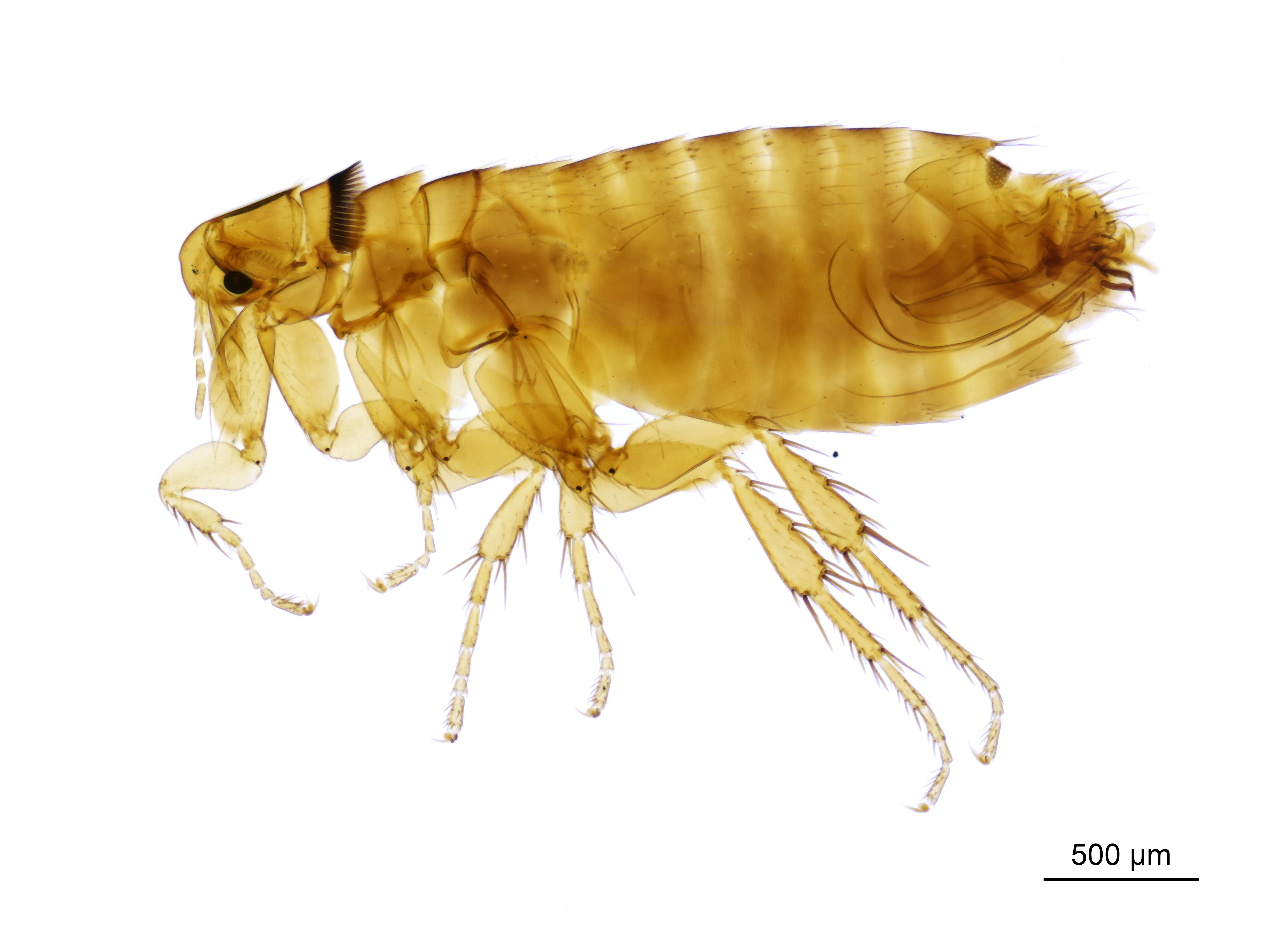 A slide image of the moorhen flea - Dasypsyllus Dasypsyllus gallinulae gallinulae (Dale, 1878). A non-type male. Country of collection: United Kingdom. Year of collection: 1901.